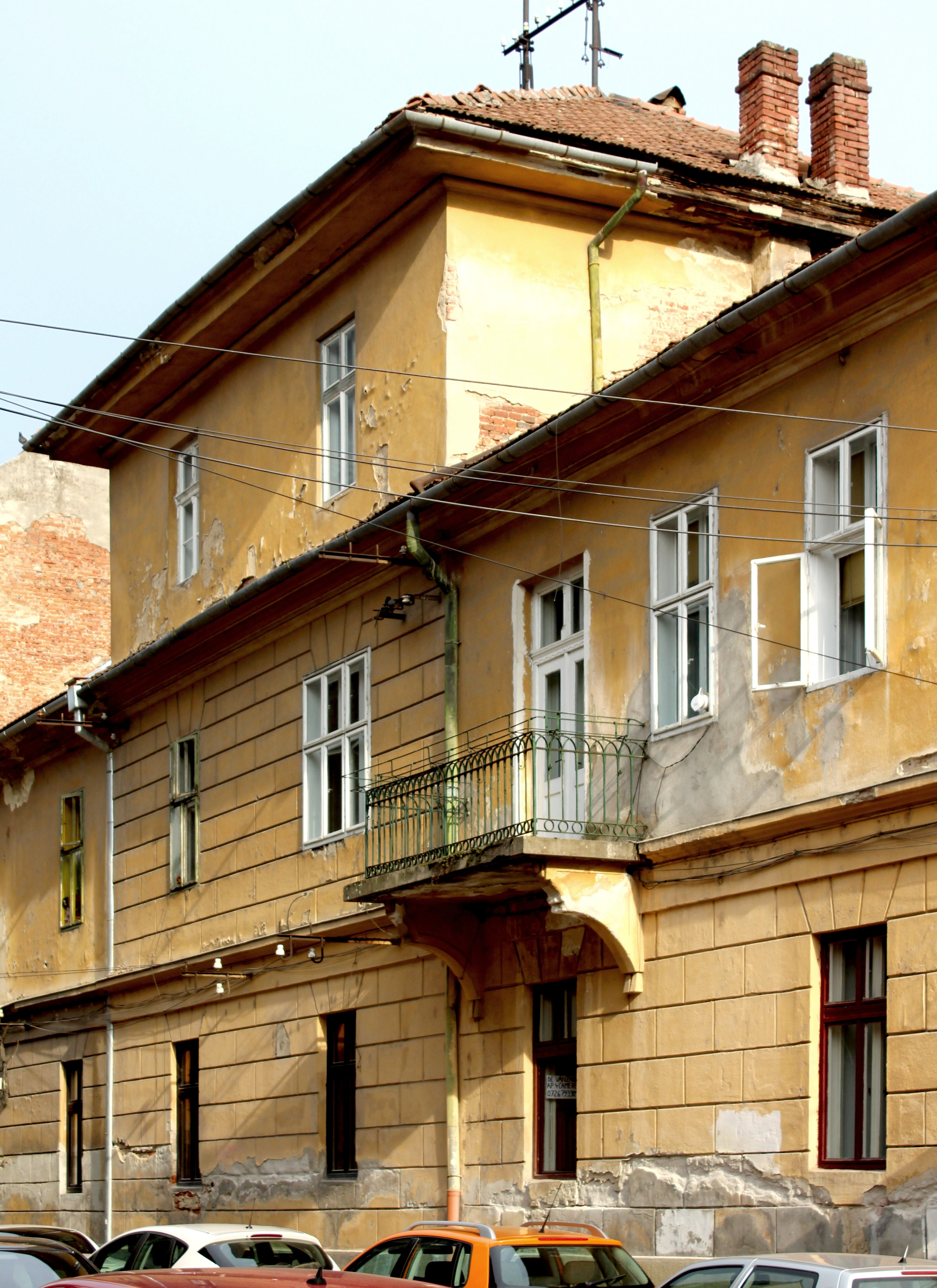 House, Timișoara, România, built 1836